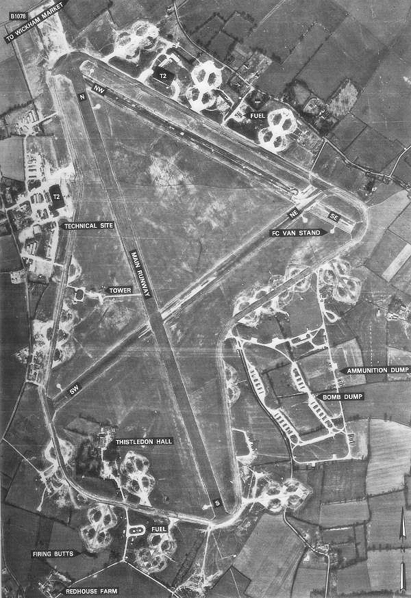 Aerial photograph of Debach Airfield, England.